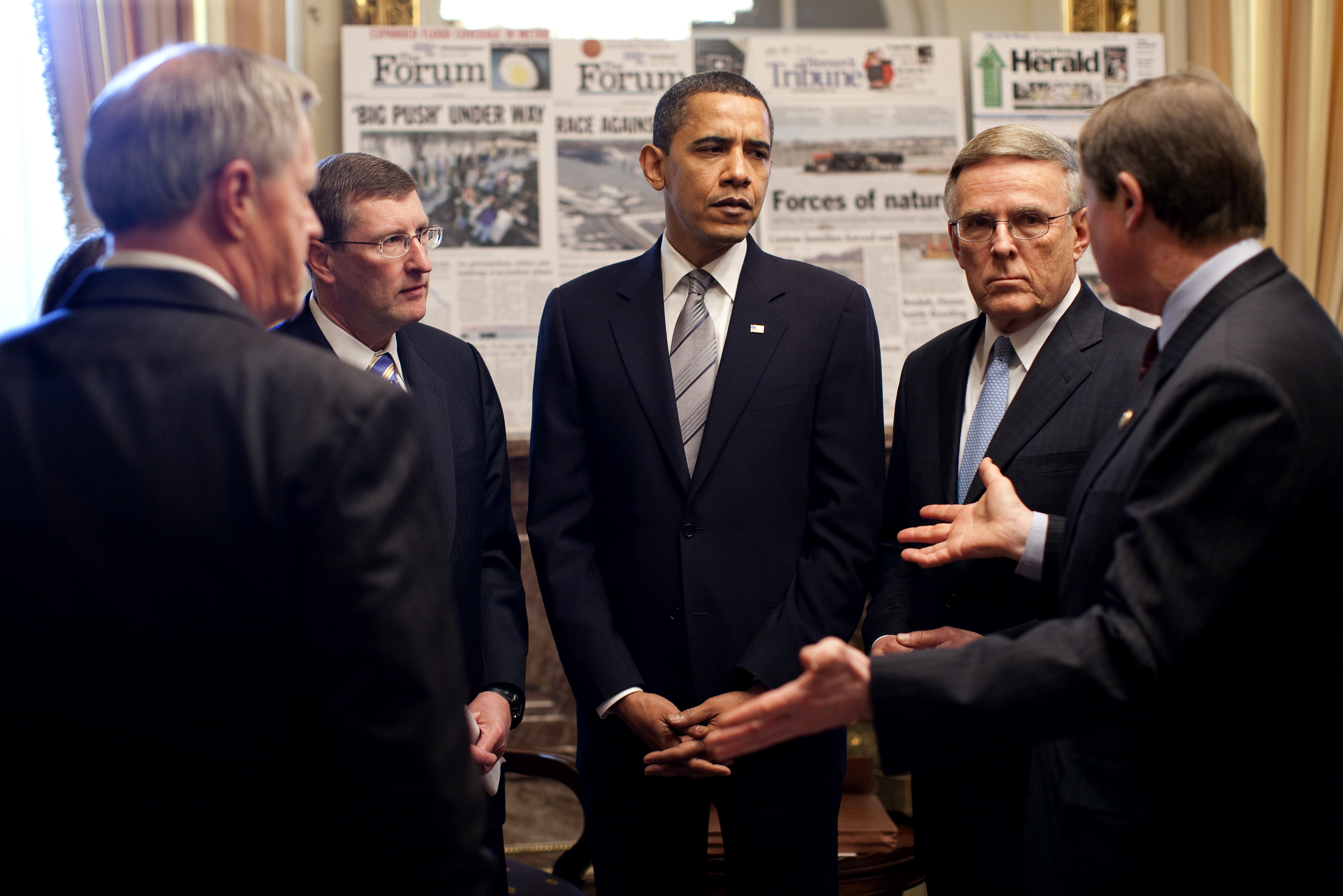 President Barack Obama meets Wednesday, March 25, 2009, at the U.S. Capitol with representatives from North Dakota and Minnesota, areas hard hit by flooding. With the President in front of a display of area news coverage are, from left, Rep. Collin Peterson, and behind him Sen. Amy Klobuchar, both of Minnesota, and Sen. Kent Conrad, Sen. Byron Dorgan and Rep. Earl Pomeroy, all of North Dakota.